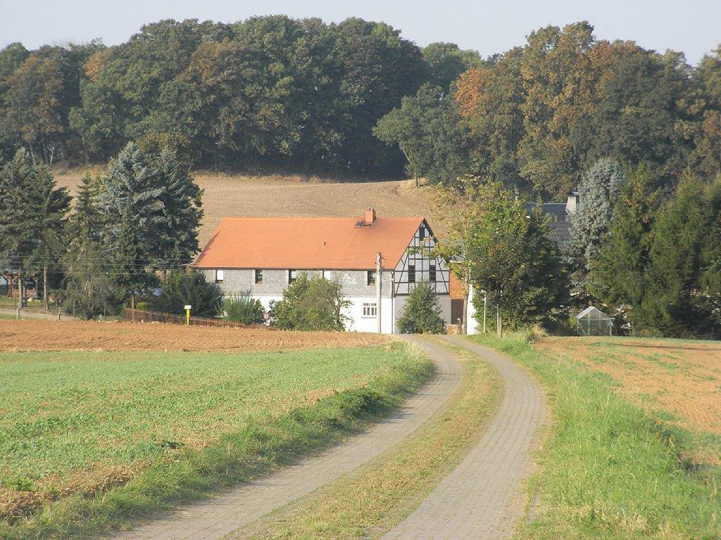 Way from Neuschönfels to Altrottmannsdorf